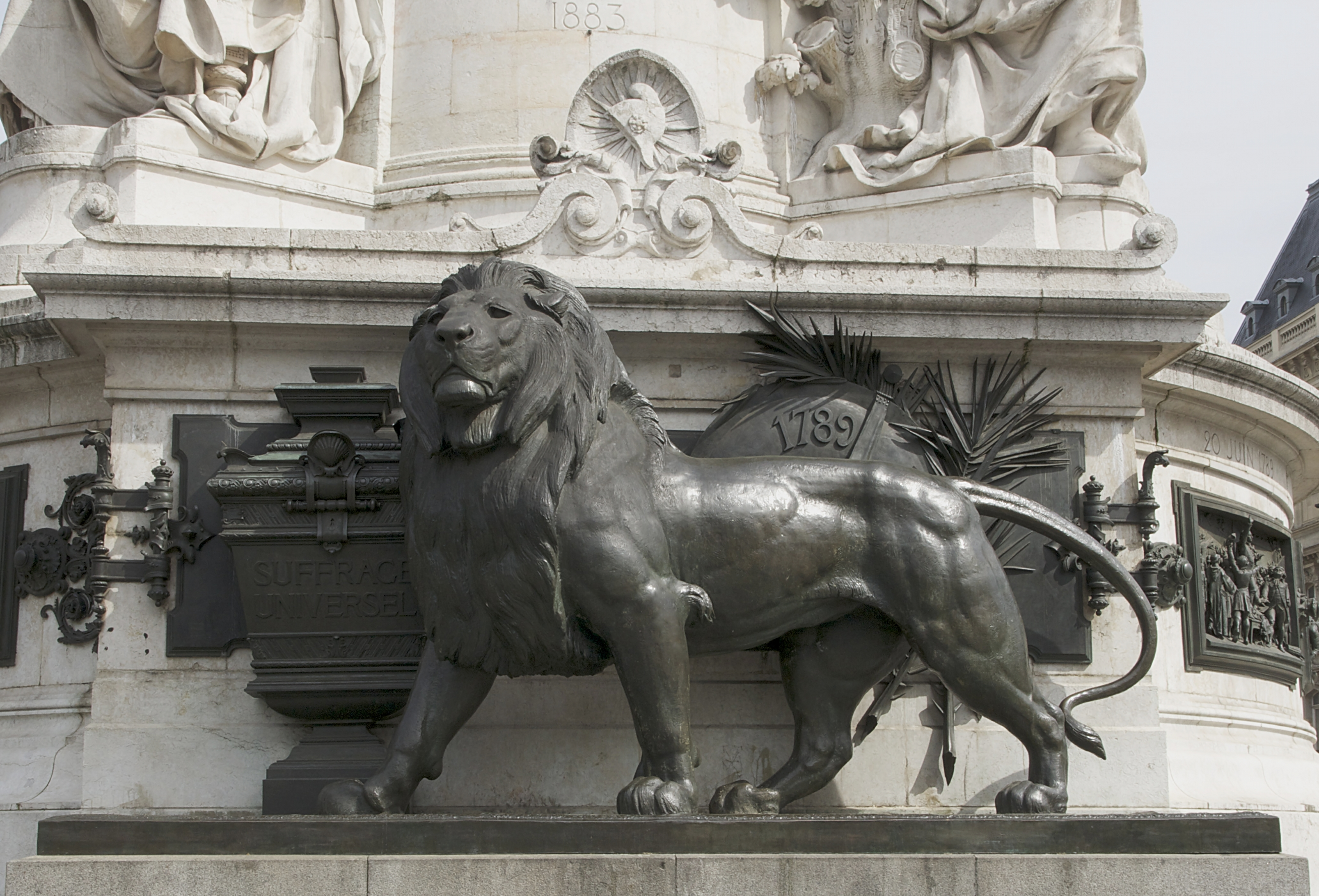 Statue of a lion, Monument to the Republic, Place de la République, Paris. Bronze, 1883.